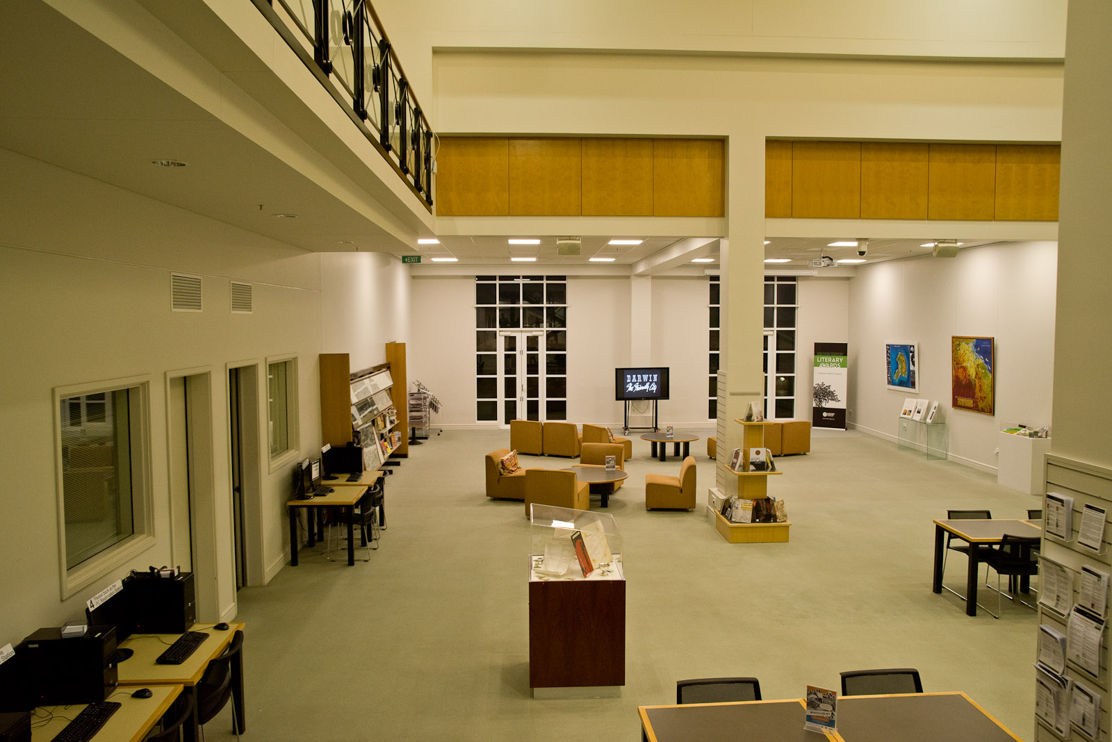 NT Library interior